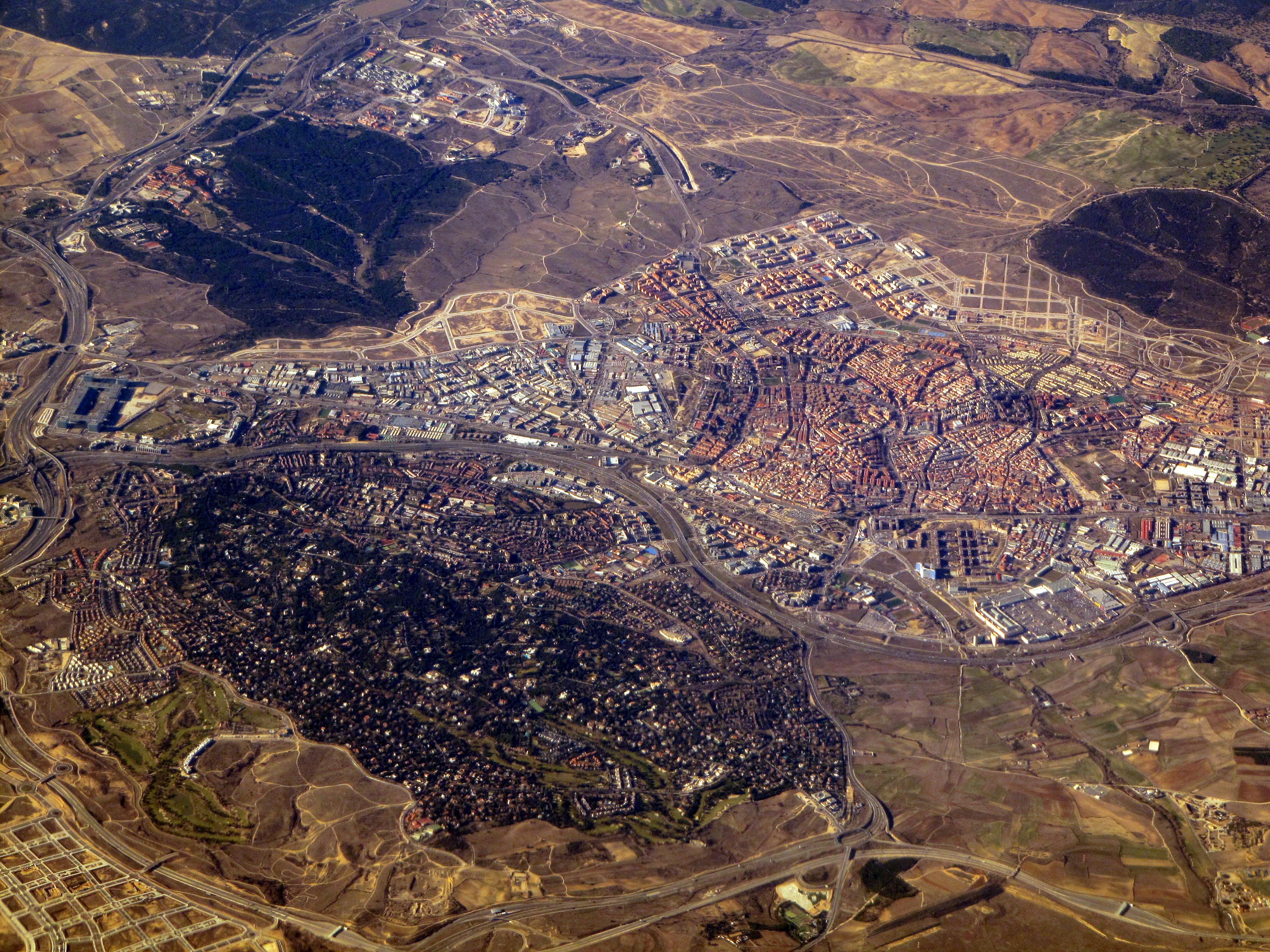 Alcobendas and San Sebastián de los Reyes